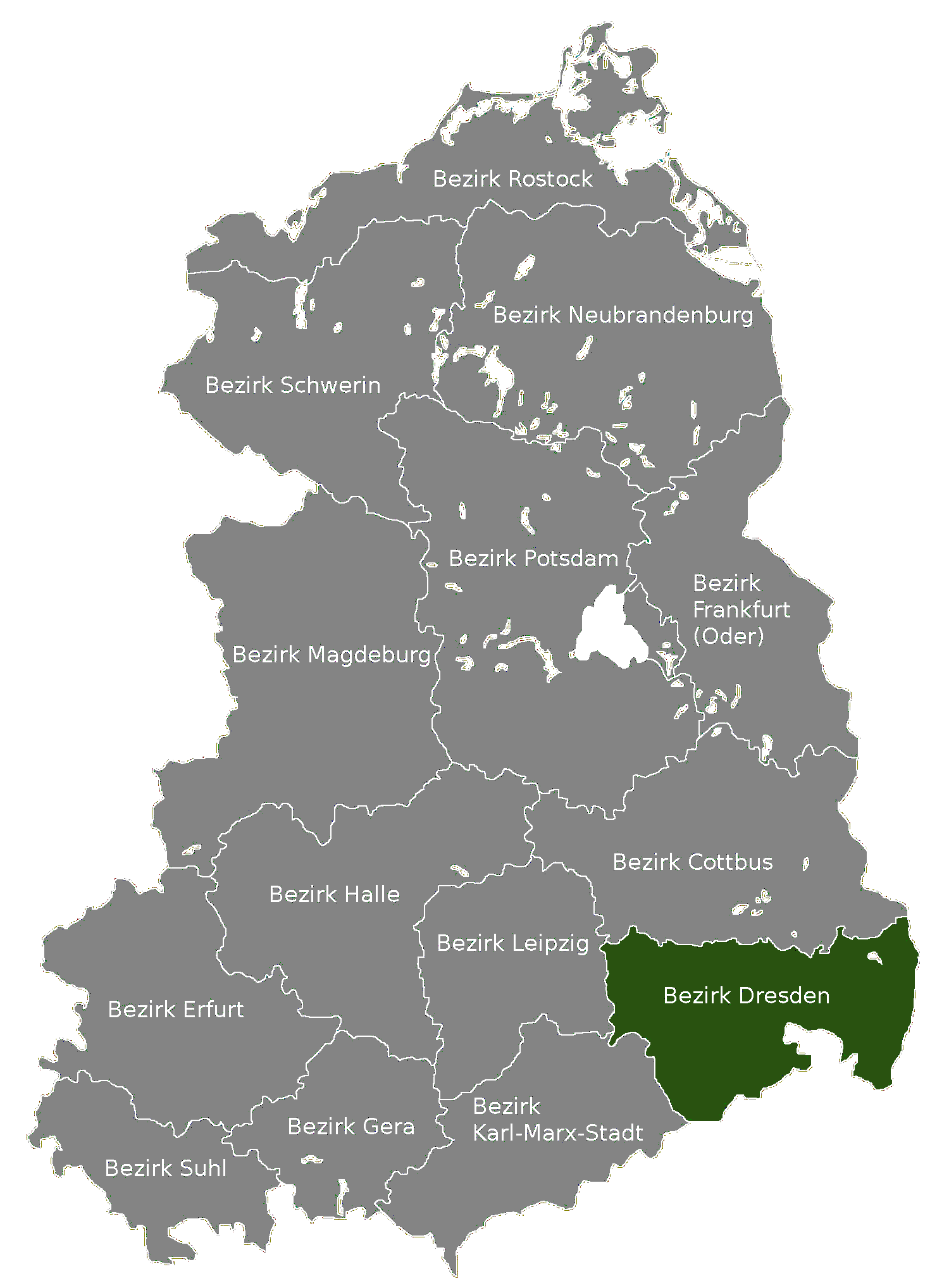 Map based on German Wikipedia